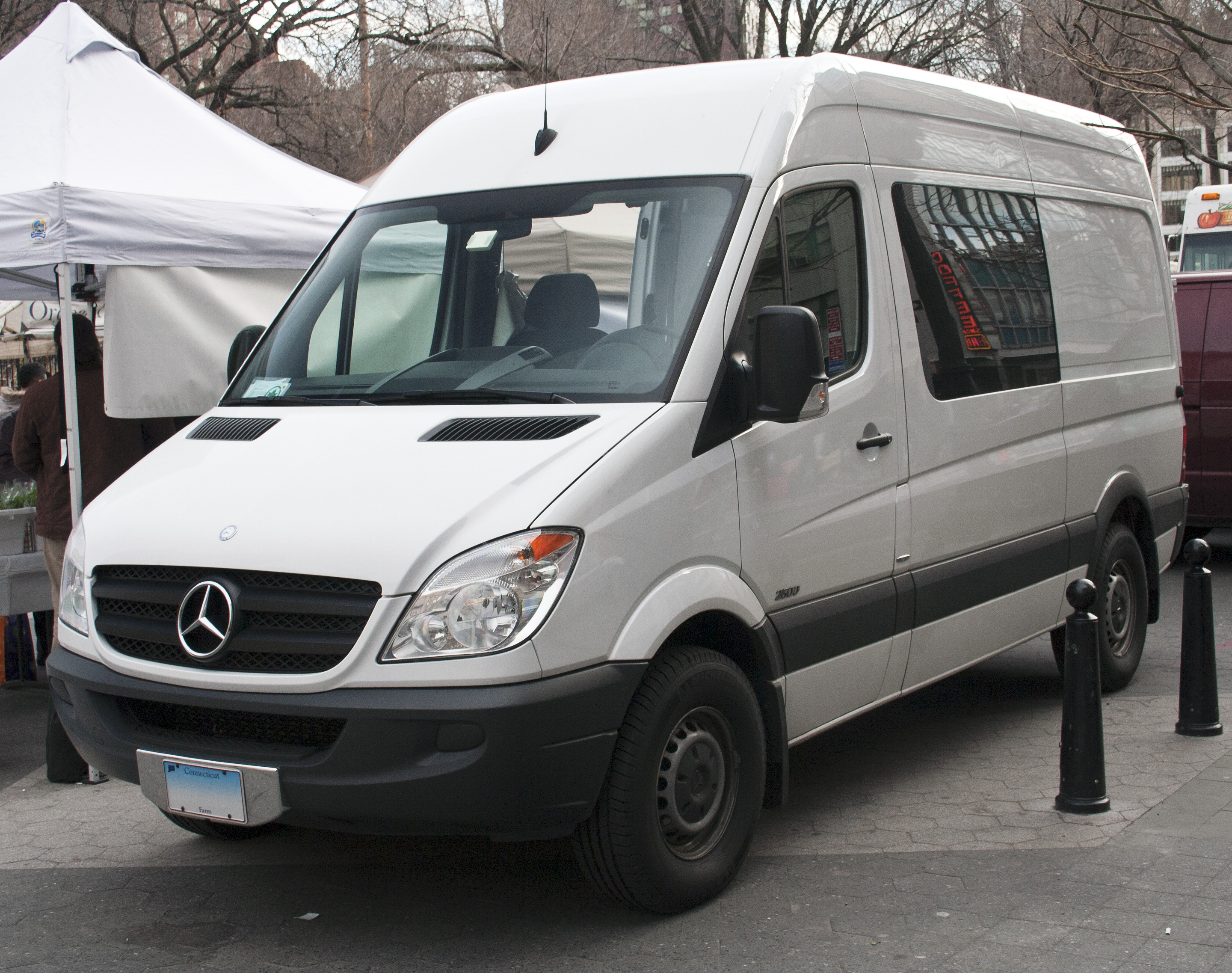 2011 Mercedes-Benz Sprinter 2500 Crew Van at the Union Square Greenmarket - with matching "farm" license plates.